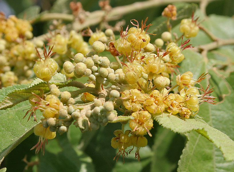 West india elm, Pigeon wood or Bay/ Bastard cedar Guazuma ulmifolia in Sanjeevaiah Park, Hyderabad, India.